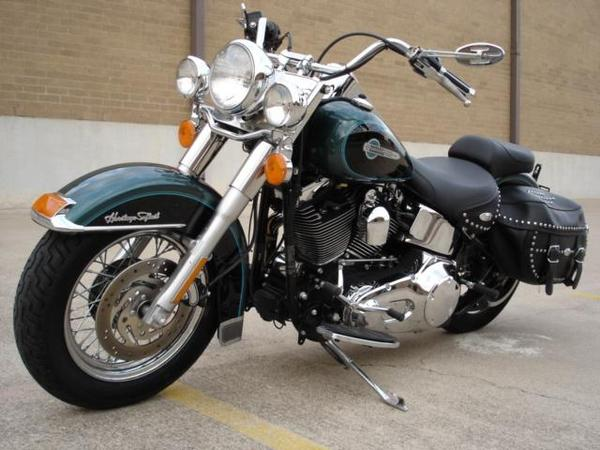 Picture of my HD Softail. I (Eric V. Blanchard) took this photo in December 2005. I permanently relinquish all rights to the work. --Evb-wiki 23:47, 10 January 2007 (UTC)]